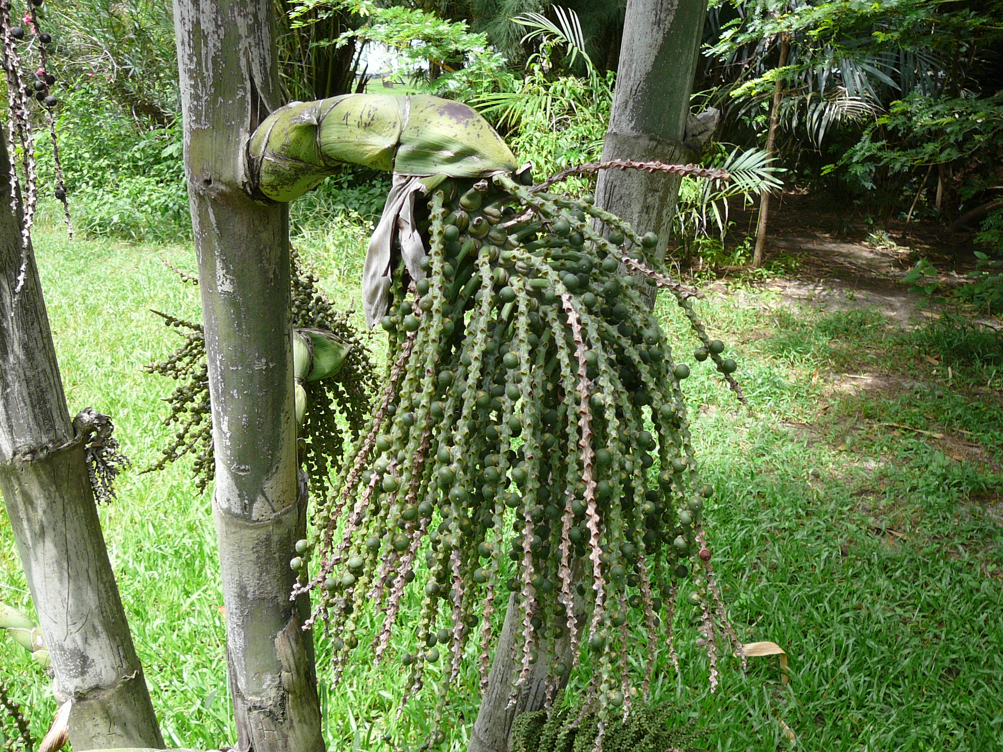 Fishtail Palm